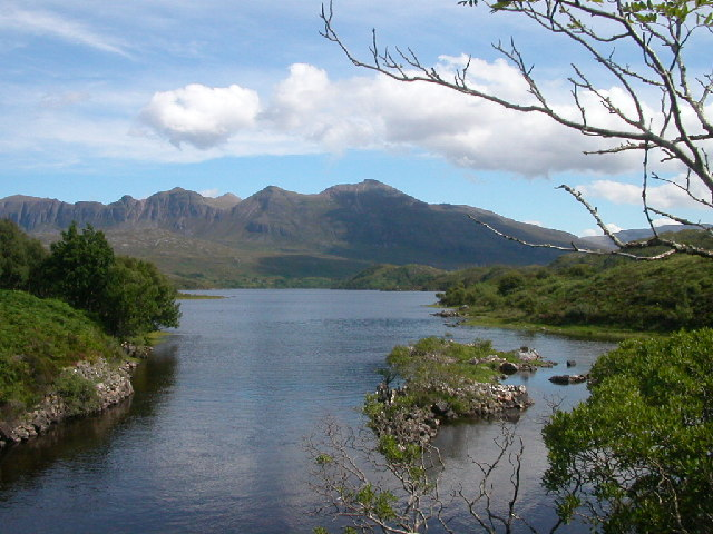 Loch Assynt. Taken from the weir at the western end of Loch Assynt. The wonderful Quinag in the distance.